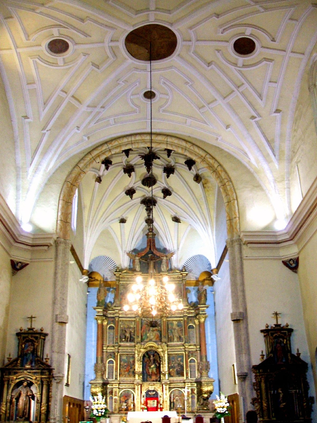 Iglesia de San Miguel, Medina del Campo (provincia de Valladolid, España).